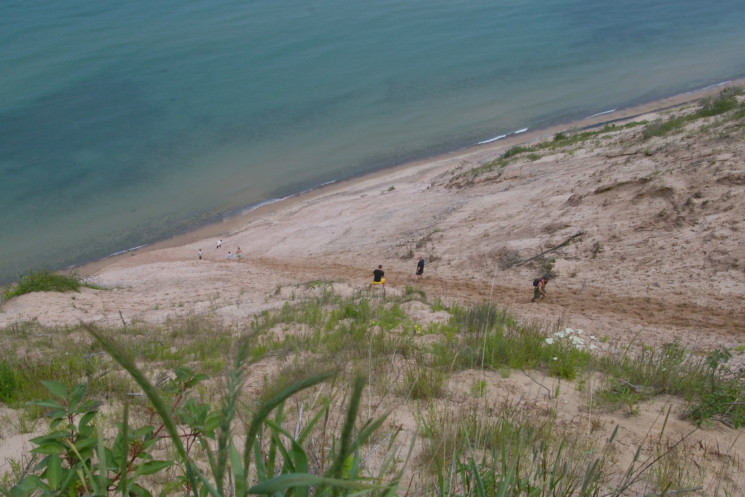 The location of a former 300 ft high log slide at the Grand Sable Banks in the Pictured Rocks National Lakeshore.